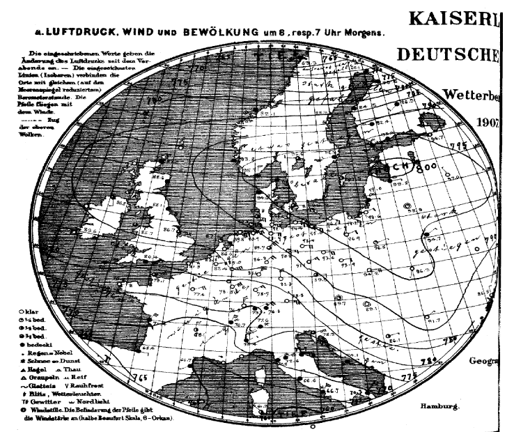 Deutsche Seewarte atmospheric pressure map Wetterbericht von 23 Januar 1907